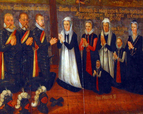 The Bille and Brahe noble families of Denmark. Privy councillor (riksråd) Otte Tygesen Brahe (father of Tycho Brahe) and mistress of the robes (hofmesterinde) Beate Clausdatter Bille (mother of Tycho), with their sons : Tycho, Steen, Knud, Axel and Jørgen (from center to right) and daughters Lisbet, Maren, Margrete, Kirsten and Sophie (from center to right); this reproduction is incomplete : the three last sons of Otte, depainted on the picture, are lacking.